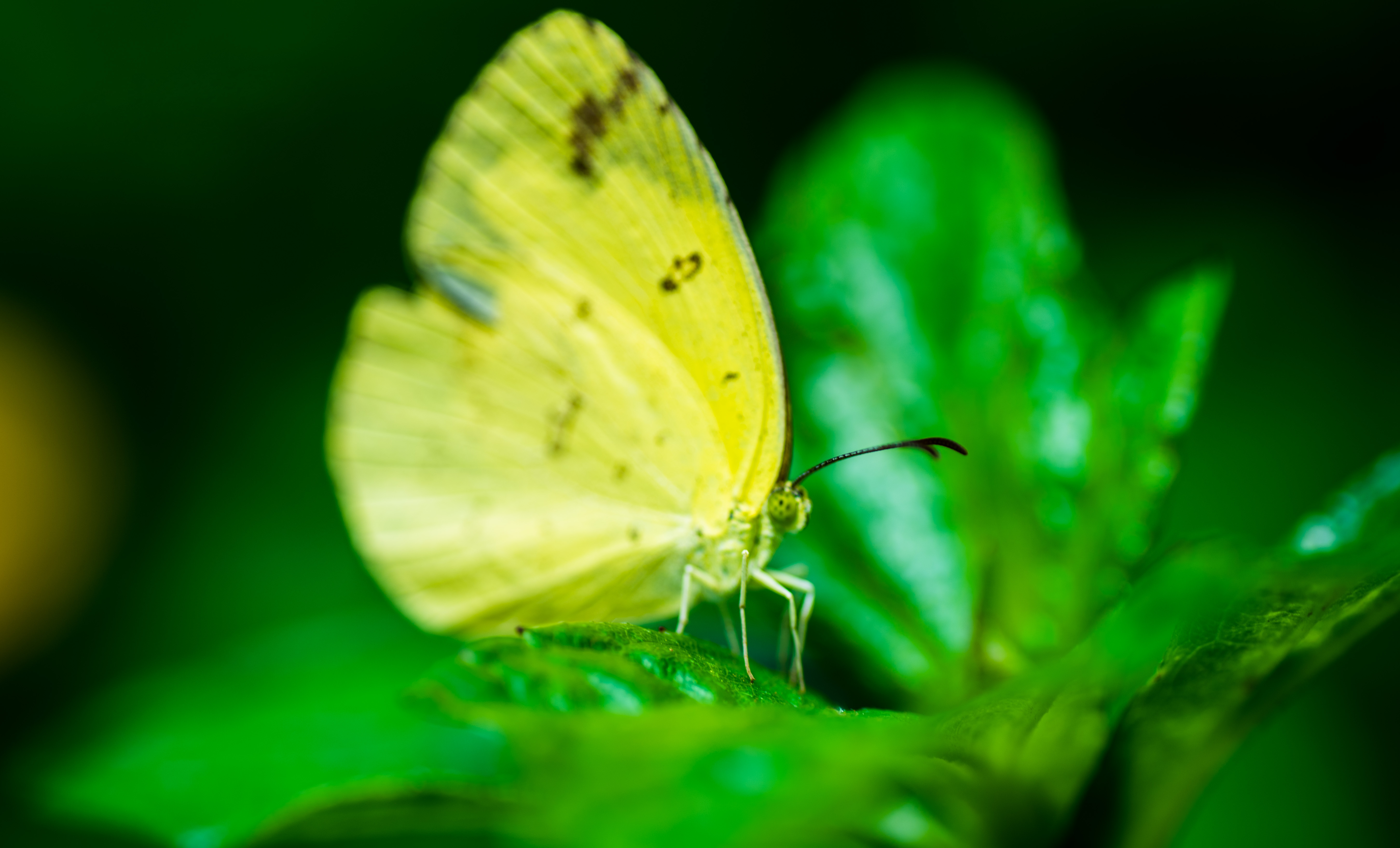 the yellow butterfly